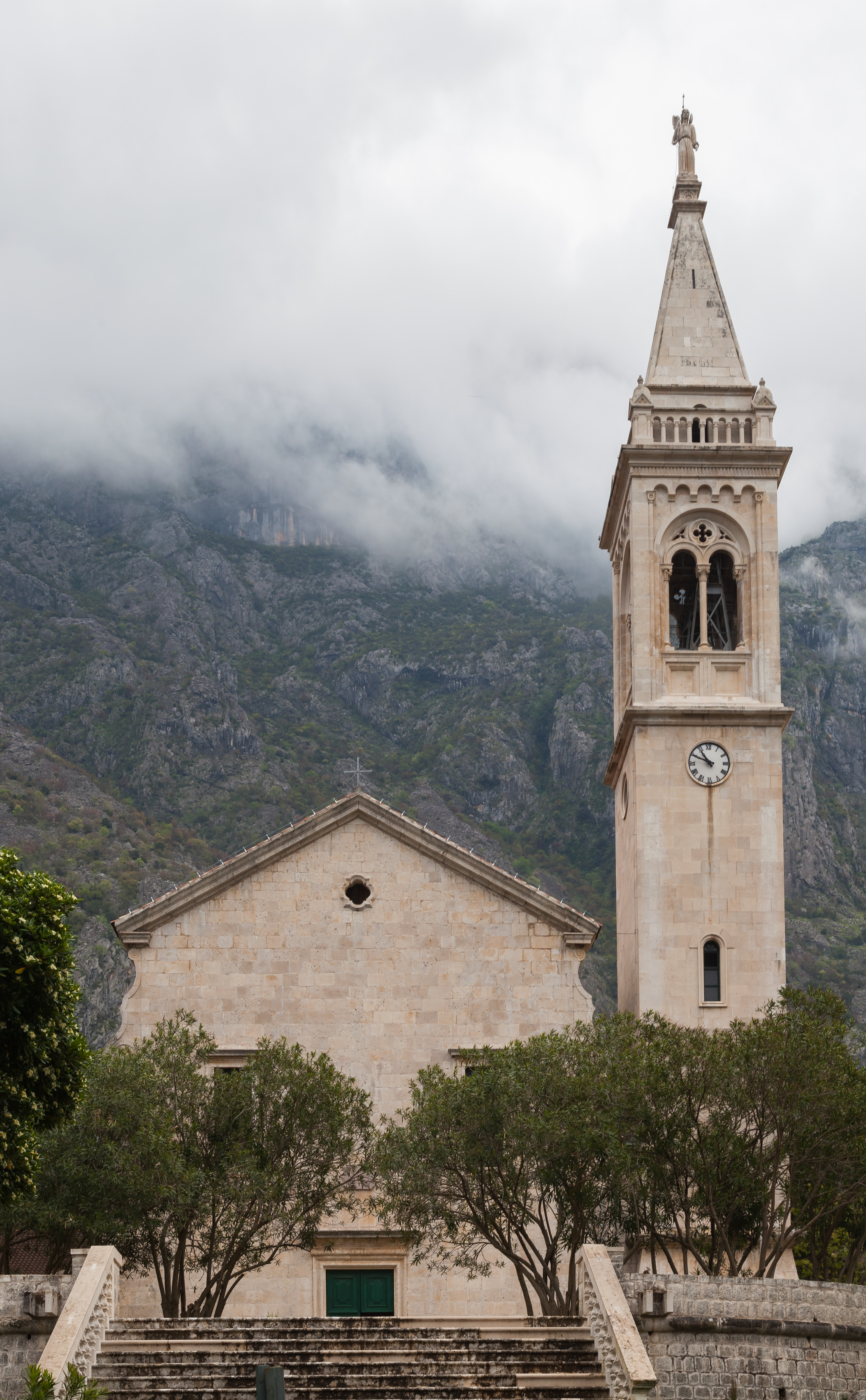 Church of St Eustachius in Dobrota. On 26 August 1762nd year, which began on the construction of the parish church, slightly above the existing (dedicated to the same saint), which dealt with since the 1332nd year. The draft for the new church was doing Venetian, Barthol Riviera. Completed the 1772nd year (bell tower was built in three stages, started in 1795th and was completed at the beginning of the twentieth century).